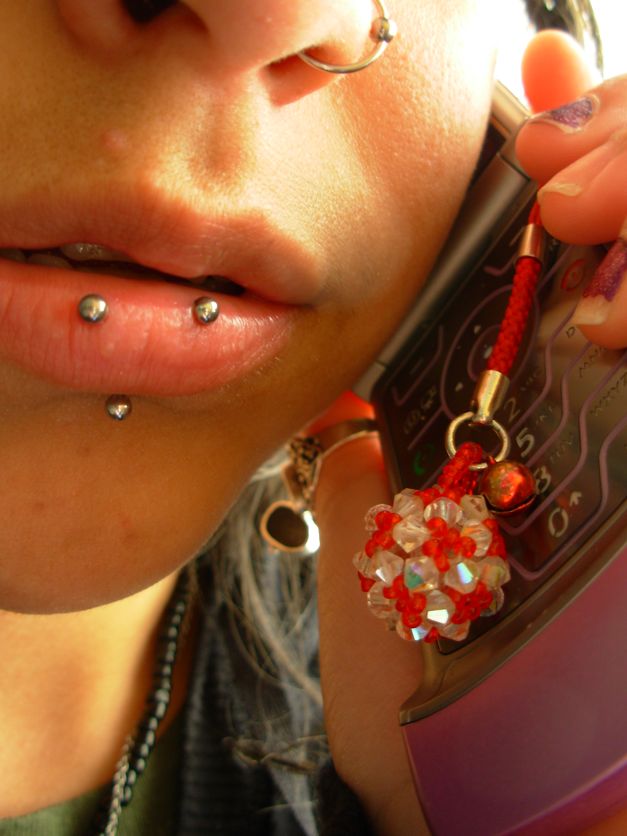 sometimes I talk on my phone like a real person.